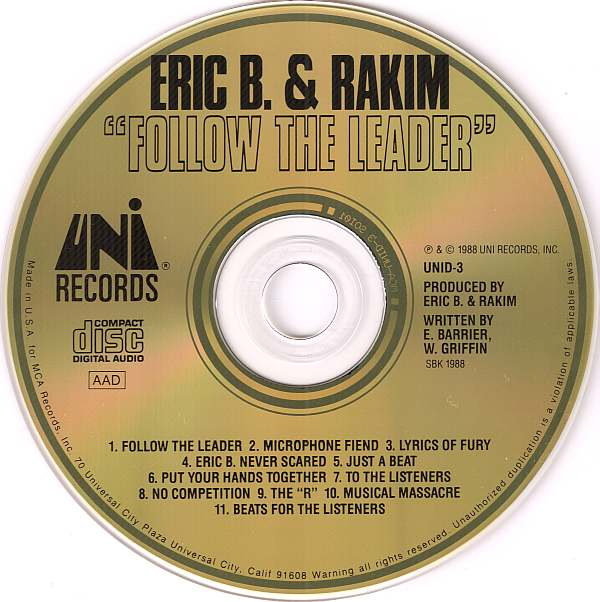 Compact disc of the Eric B. & Rakim / album Follow the Leader. This is the U.S. version of the album that was released in 1988 on UNI Records.